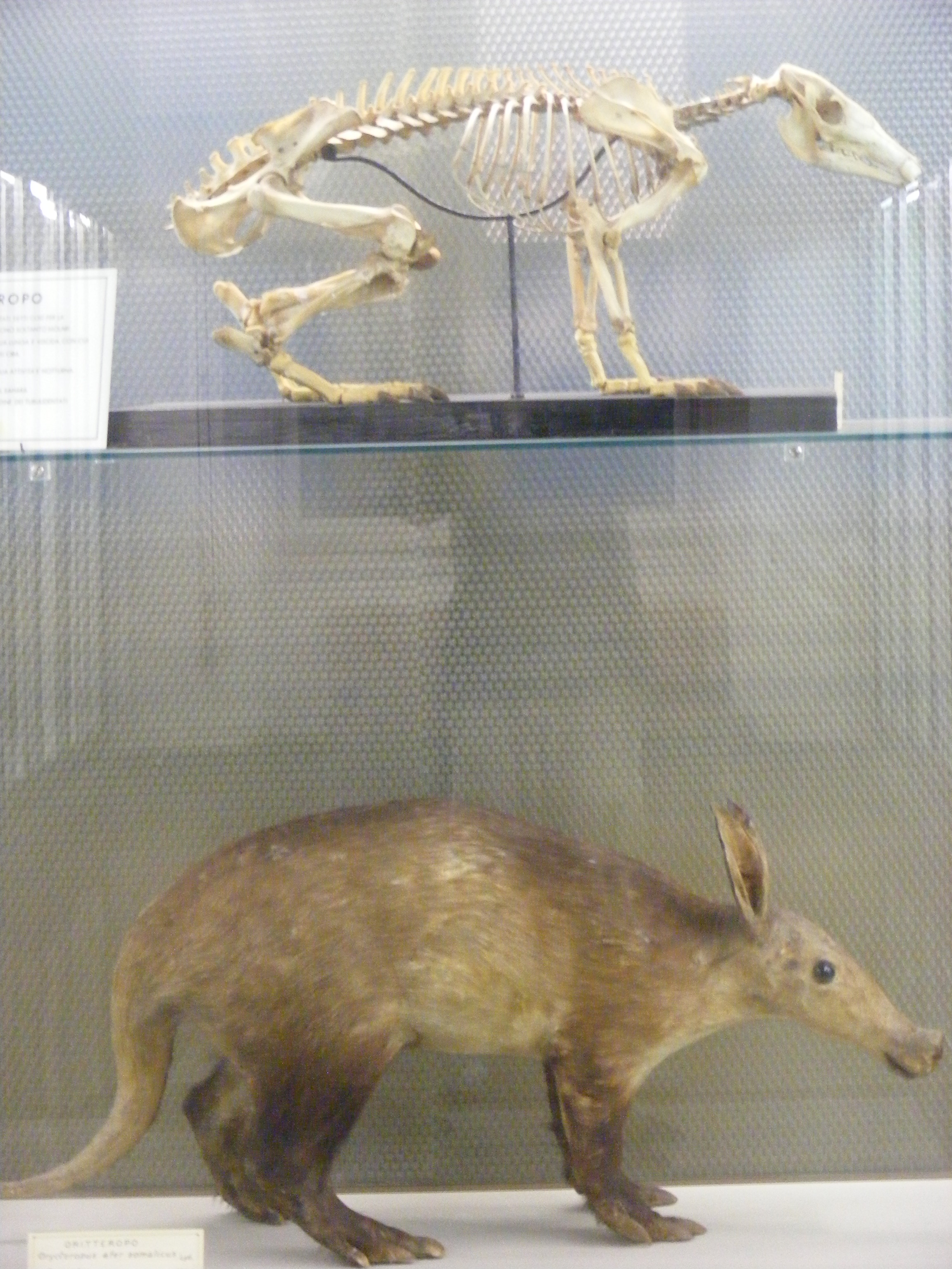 Aardvark exhibit at the Natural History Museum of Genoa